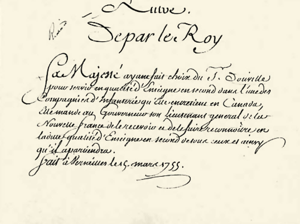 Order to Sieur Douville, Ensign, 1755